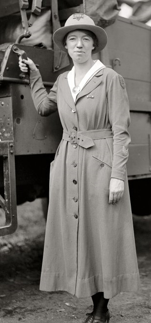 Historical photograph of World War I hero Frances Gulick from 1919. The picture is from the Library of Congress Prints and Photographs Division Washington, D.C. 20540